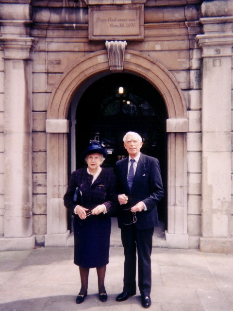 Sir Frederick and Lady Rosier outside St Clement Danes (April 1995)